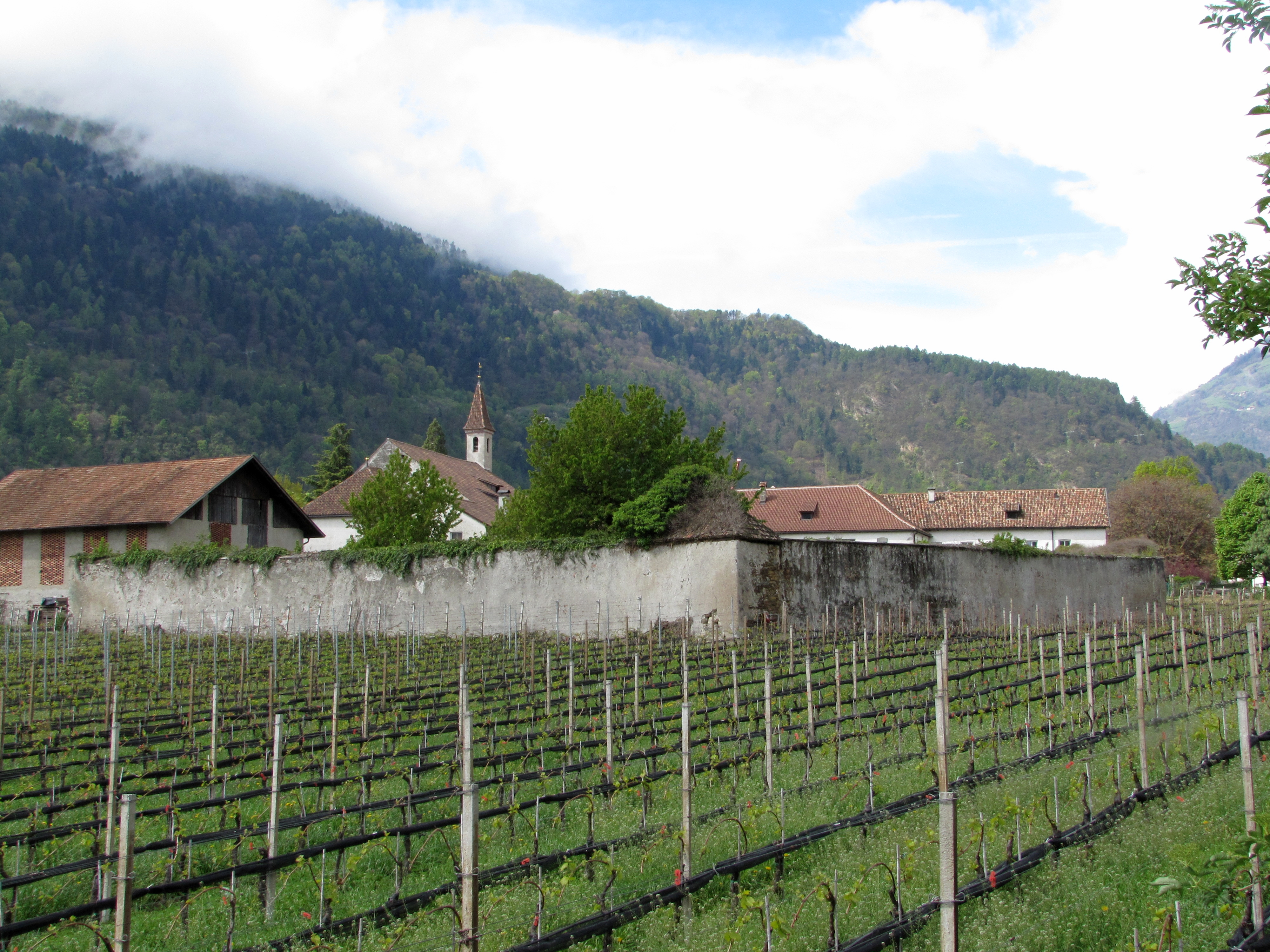 Convent Maria Steinach, Algund, South Tyrol